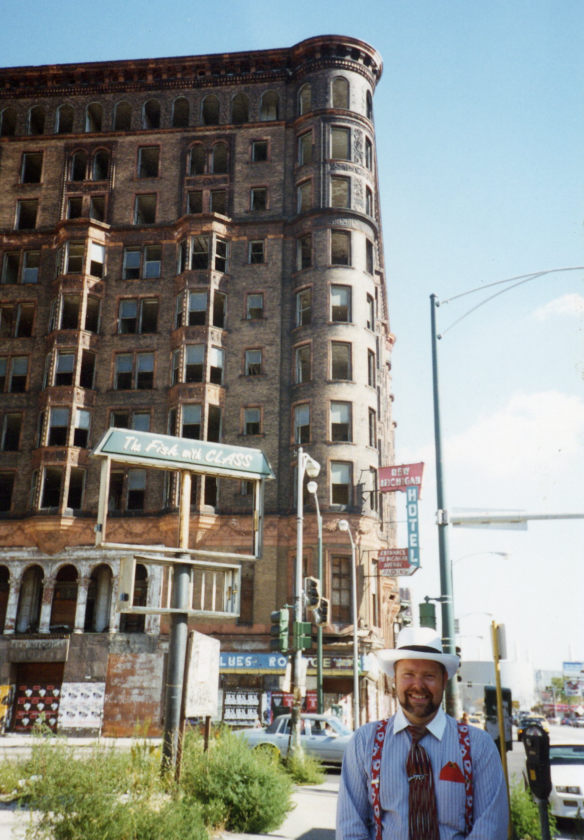 Lexington Hotel, Chicago. Photographed by Giano II. Figure in foreground is a "Gangster" tour guide. I think he called himself "Southside". Highly recommend him!